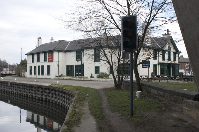 The Golden Lion Public house, Ferrybridge I believe that the pub was used as a staging post for horse-drawn carriages using the Great North Road, when the only means of crossing the River Aire was by ferry. Yes, that is a traffic signal in the foreground; it is used by the coal barges entering and leaving the lock on the far left.